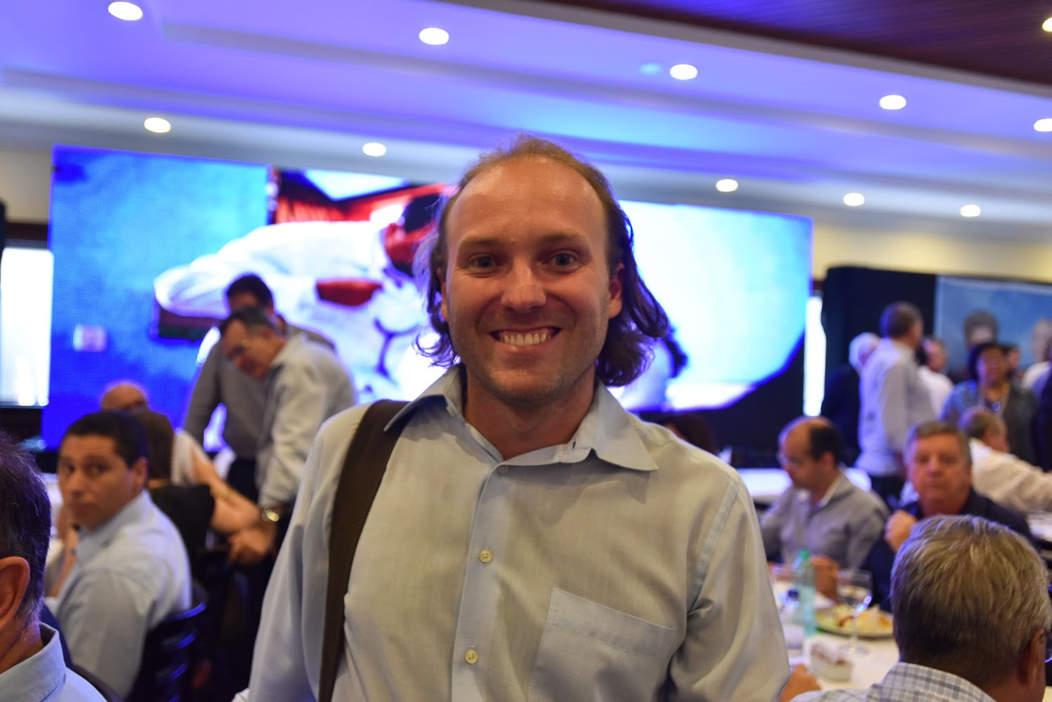 Rodrigo Agostinho, mayor of Brazilian city Bauru, from 2008 to 2016